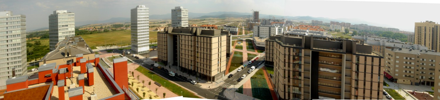 Salburua neighbourhood (Vitoria-Gasteiz)